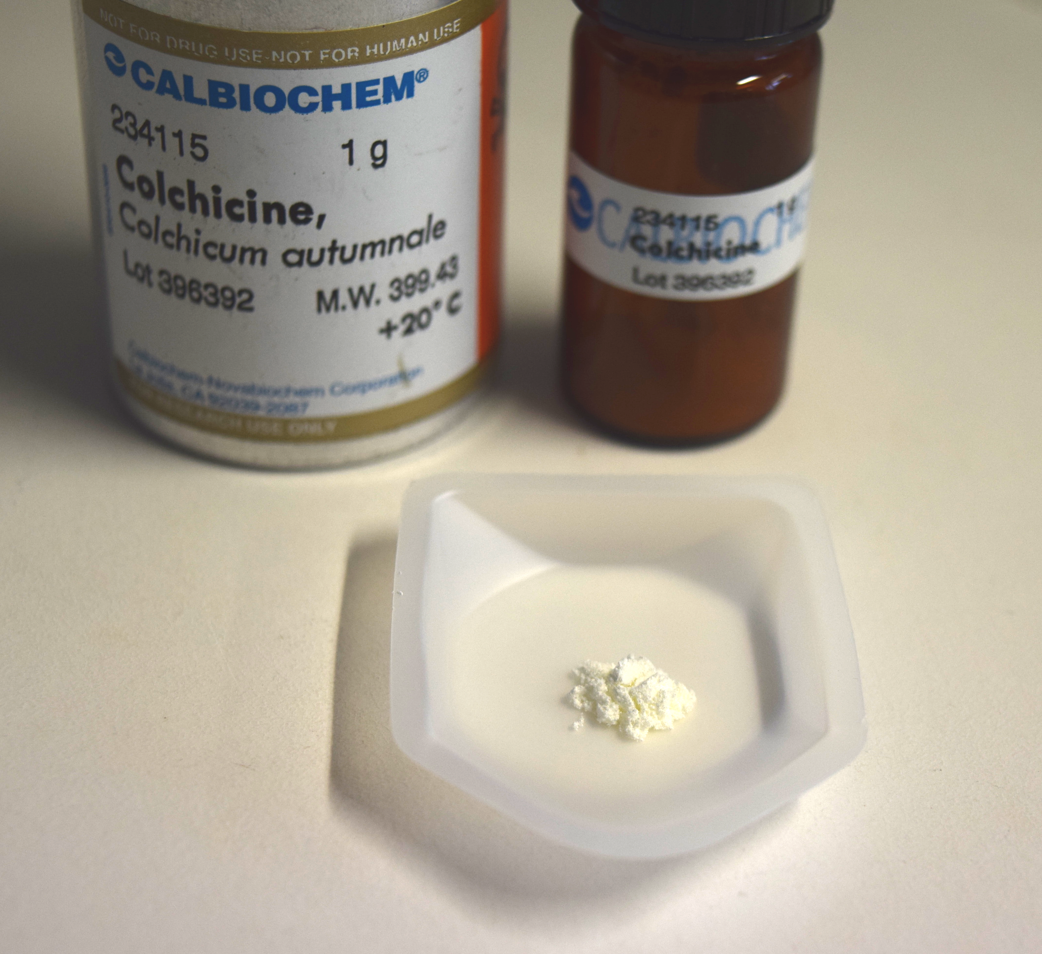 A sample of the alkaloid Colchicine.